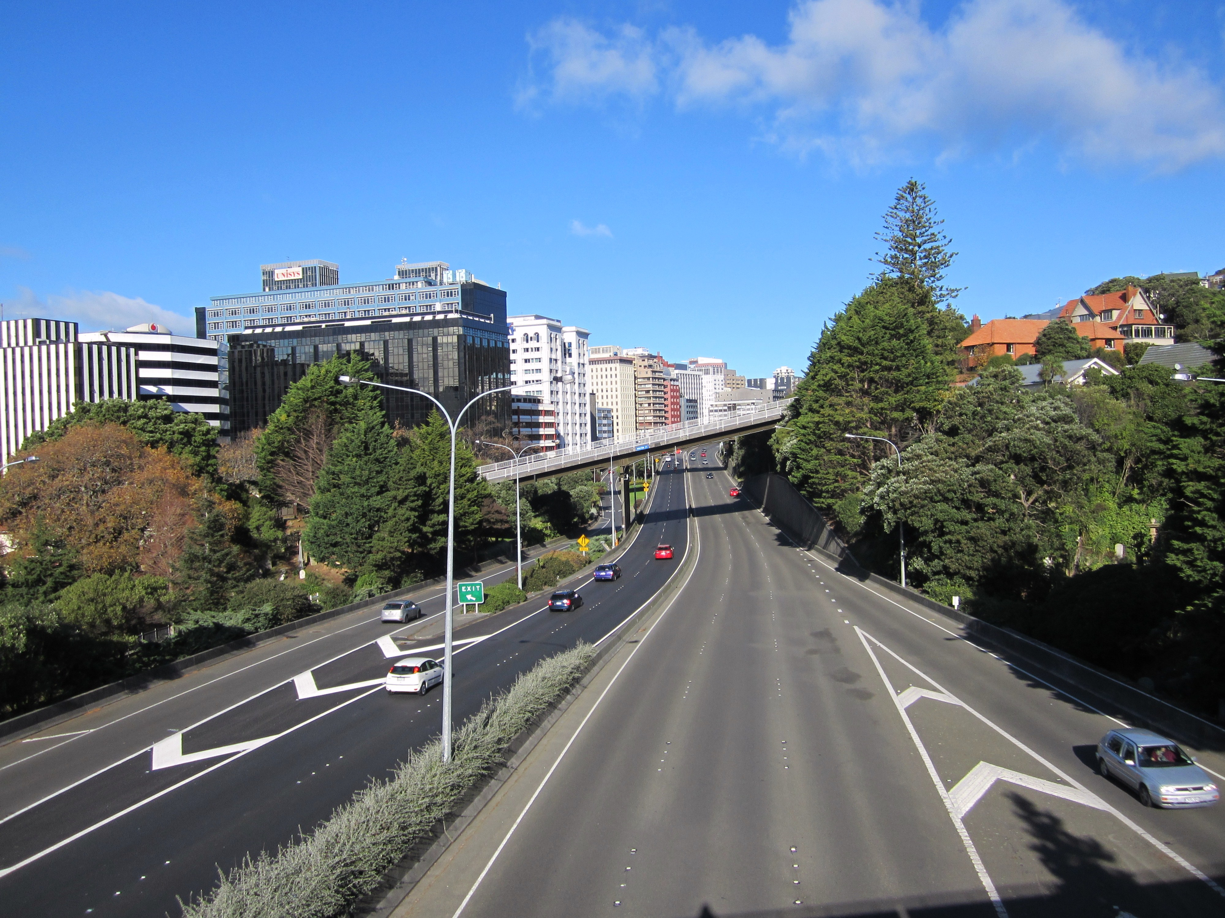 The Wellington Urban Motorway passing through the Bolton Street Memorial Park - note the gravestones on each side of the motorway.